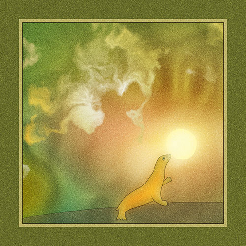 "Sense of the Sun", giclée graphics by Nerva